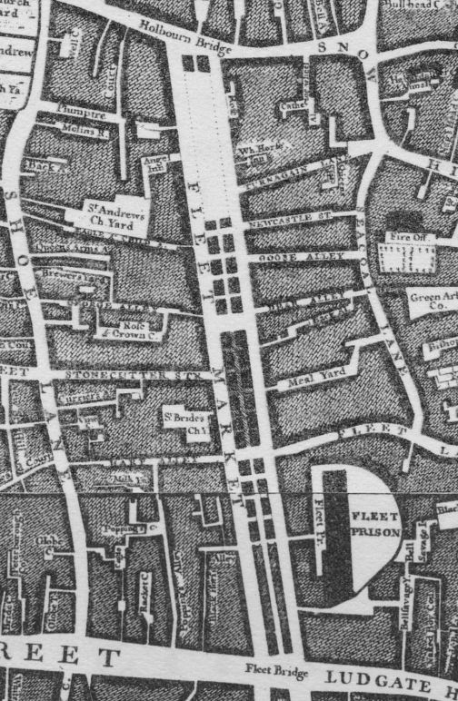 Detail from Roque's Map of London 1746